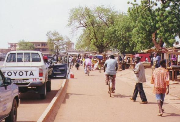 Bolga Road in downtown Tamale, Ghana (November 1999)